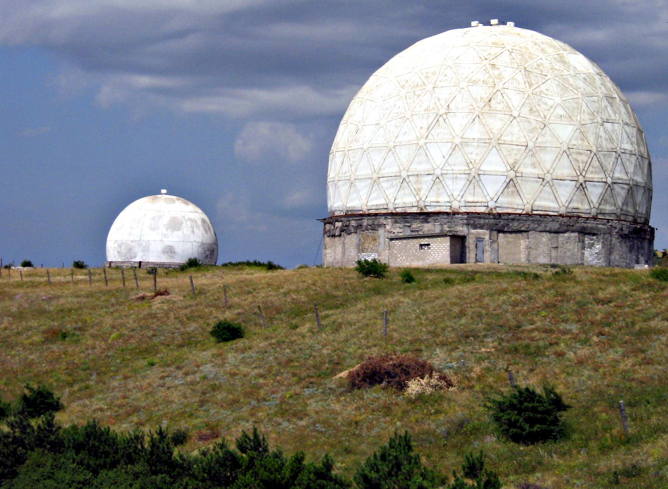 Radar. Tepe_Oba mauntains near Theodosia.Crimea. Ukraine.